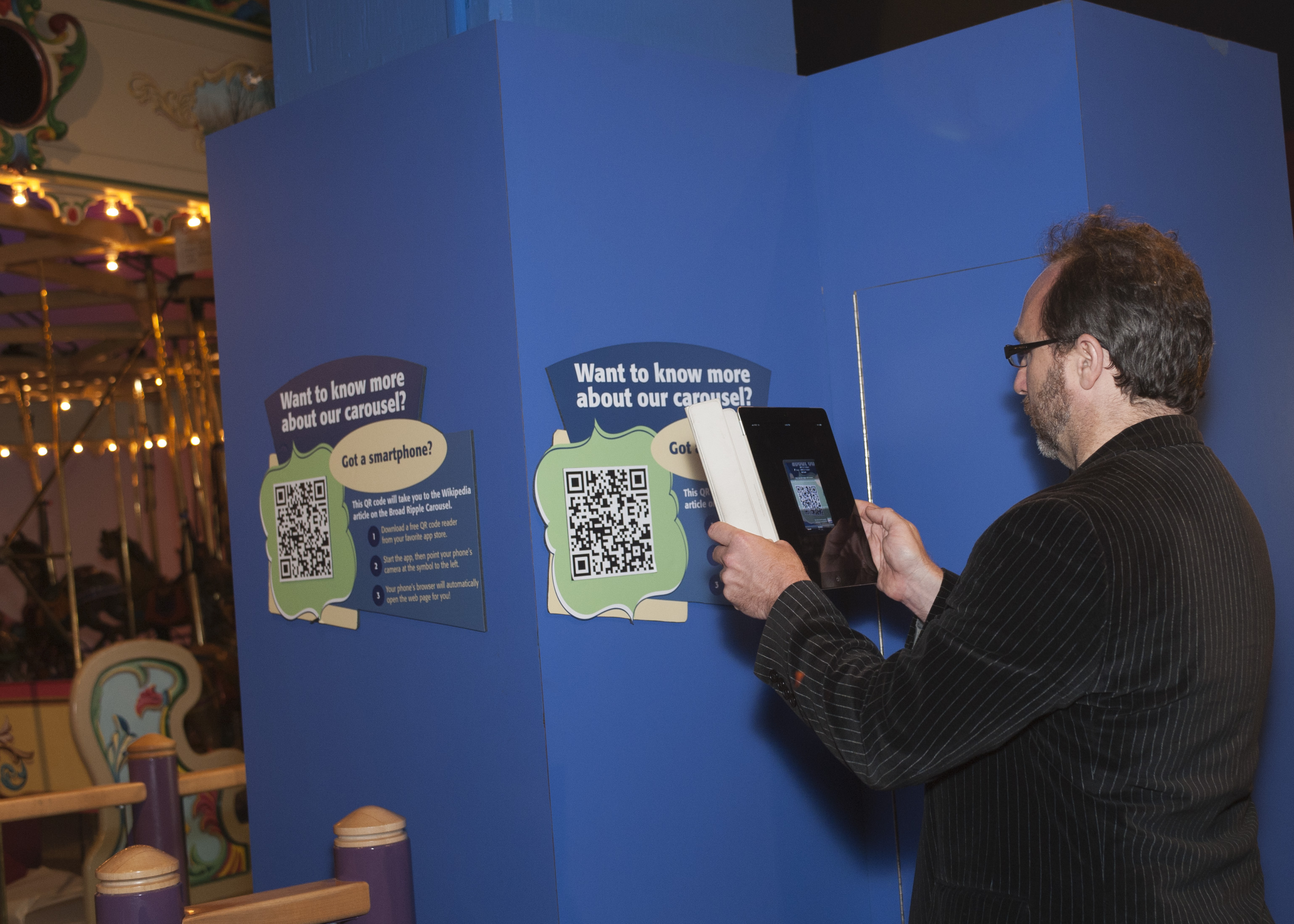 Jimmy Wales scans the QRpedia code for the Broad Ripple Park Carousel in The Children’s Museum of Indianapolis on September 13, 2011.